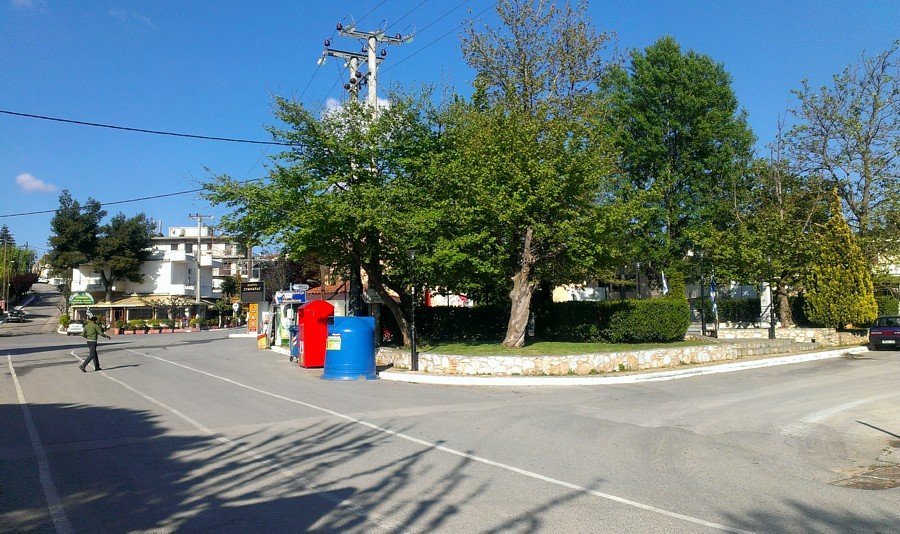 stamata